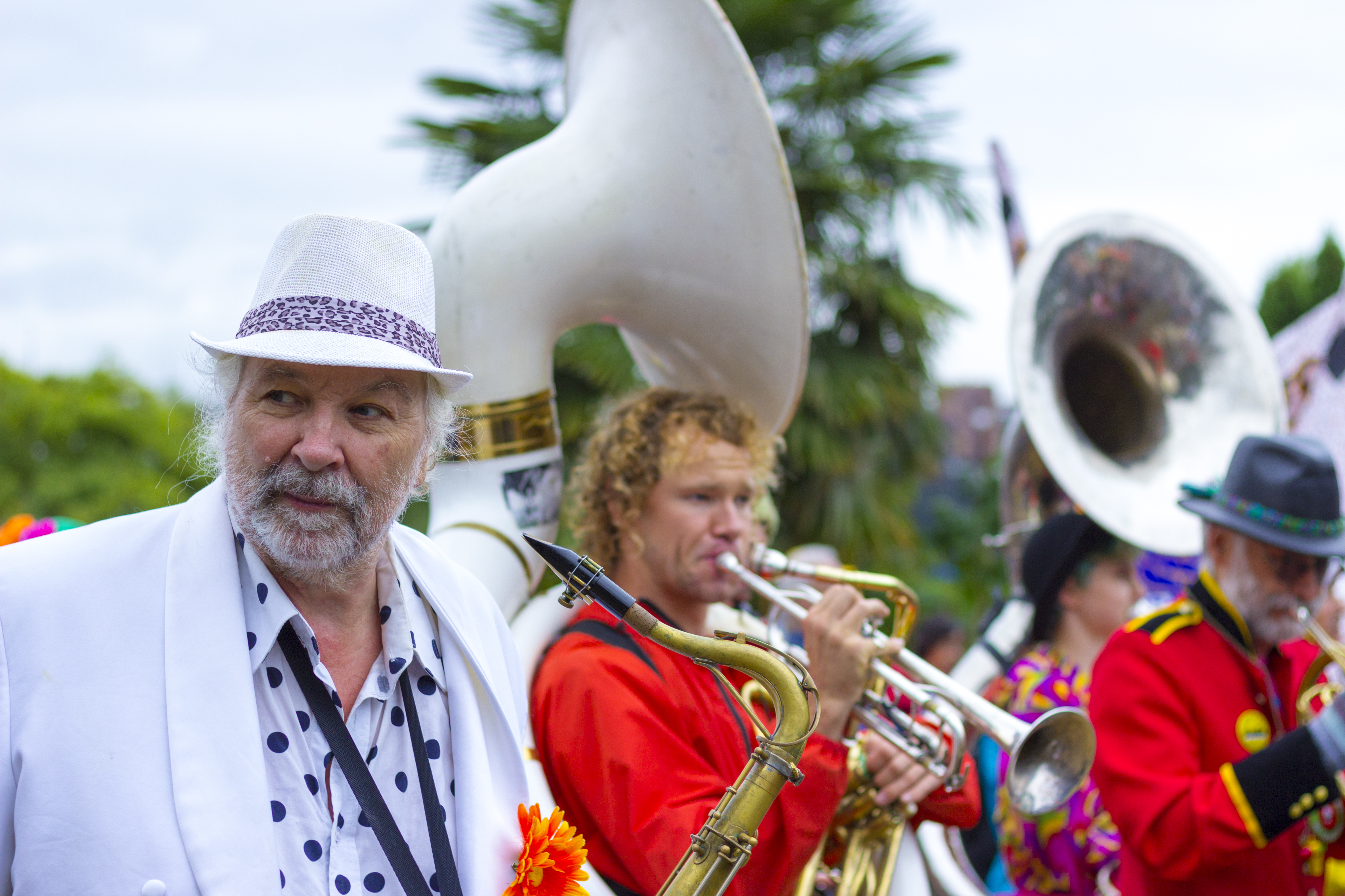 The Carnival Band at a Rally Against the Kinder Morgan Pipeline on September 9th, 2017